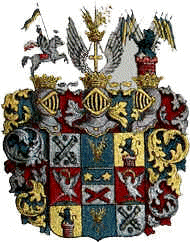 De la Gardies coat of arms